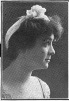 Photograph of American actress Minnette Barrett appearing in April 1910 issue of "The Theatre" magazine